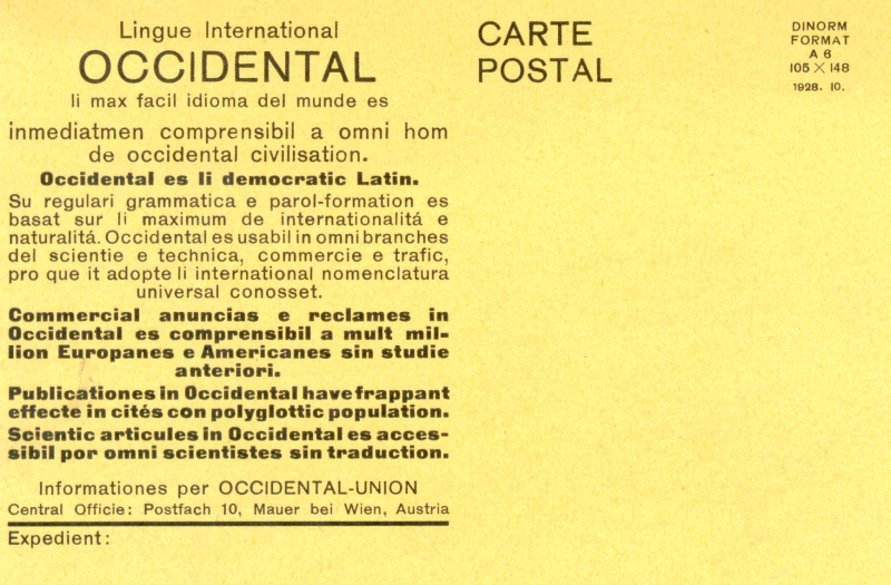 PR postcard for the constructed language Occidental (Interlingue)